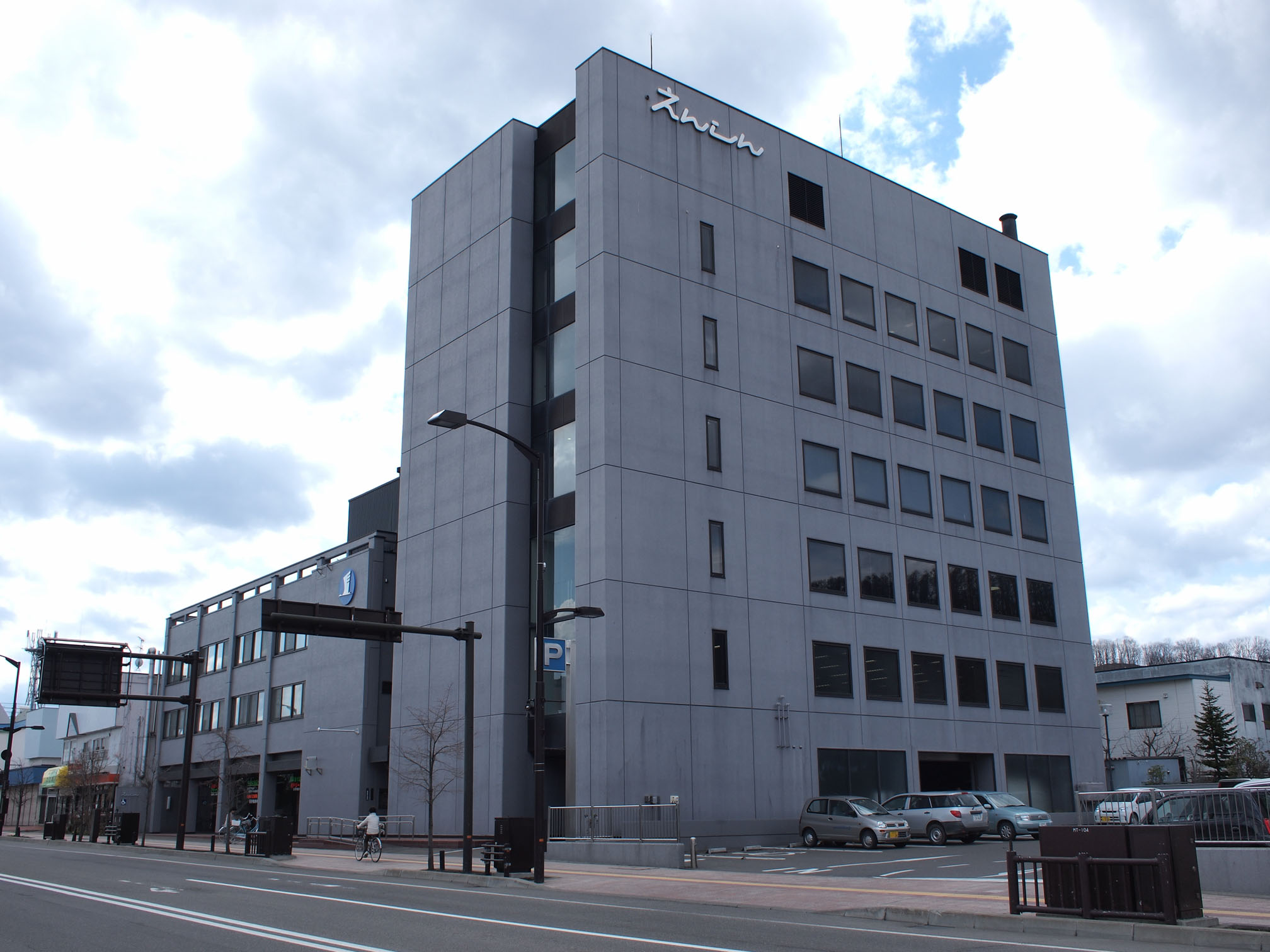 Engaru Shinkin Bank, Engaru, Hokkaido, Japan